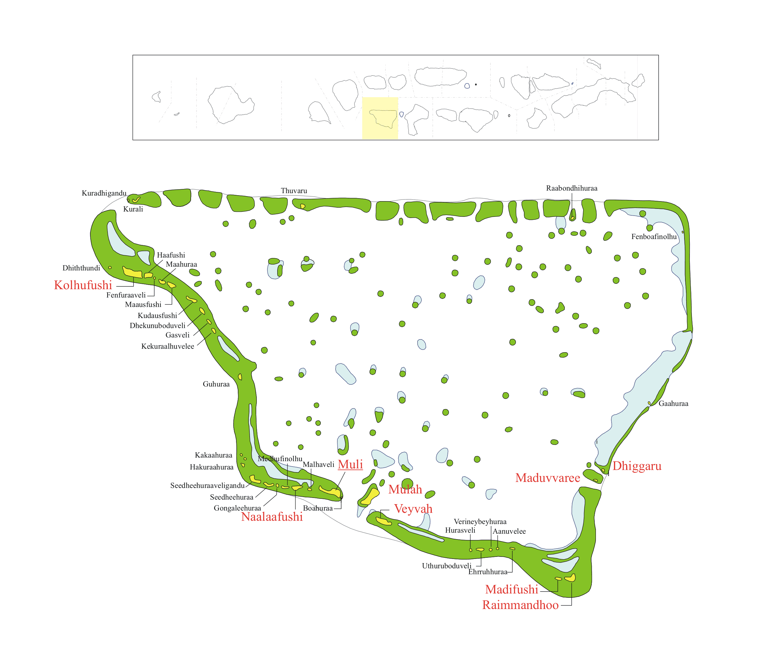 Summary Map of Meemu_Atoll Map originally vector'ed by Hassan Waheed, Aabaadhuge of Thinadhoo island. Note: This section of map was extracted and its text was romanized by Oblivious. Special assitance by Waddey and Zuru Converted to PNG by helix84 source: Image:Meemu_Atoll.jpg